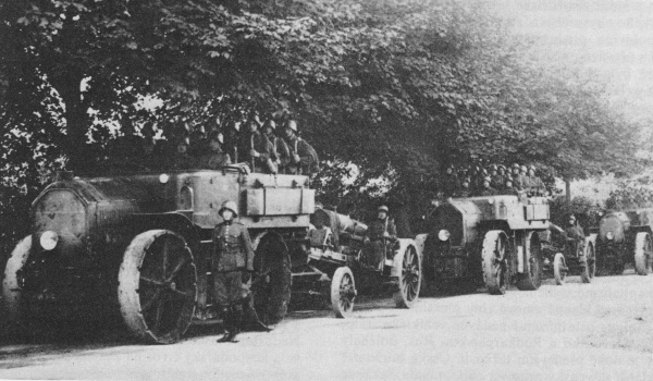 Artillery tractor Daimler vz. 17